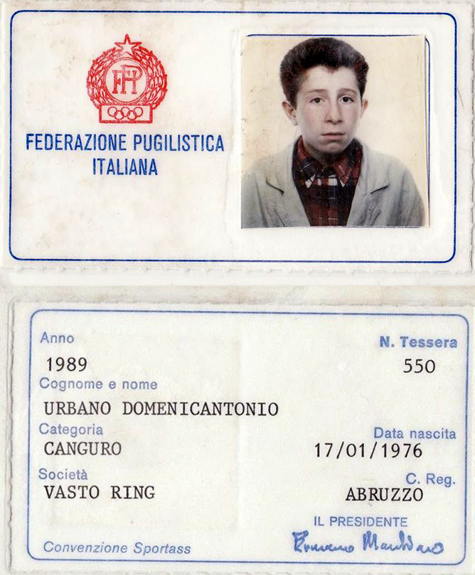 Domenico Urbano, his first membership.